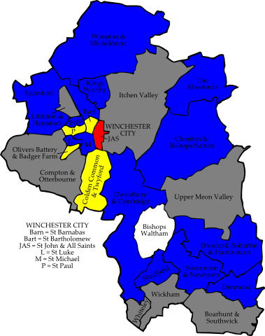 A map of the results of the 2006 Winchester Council election. Colour legend by wards won: Conservative party Liberal Democrats Labour party Independent Wards in grey were not contested in 2006.